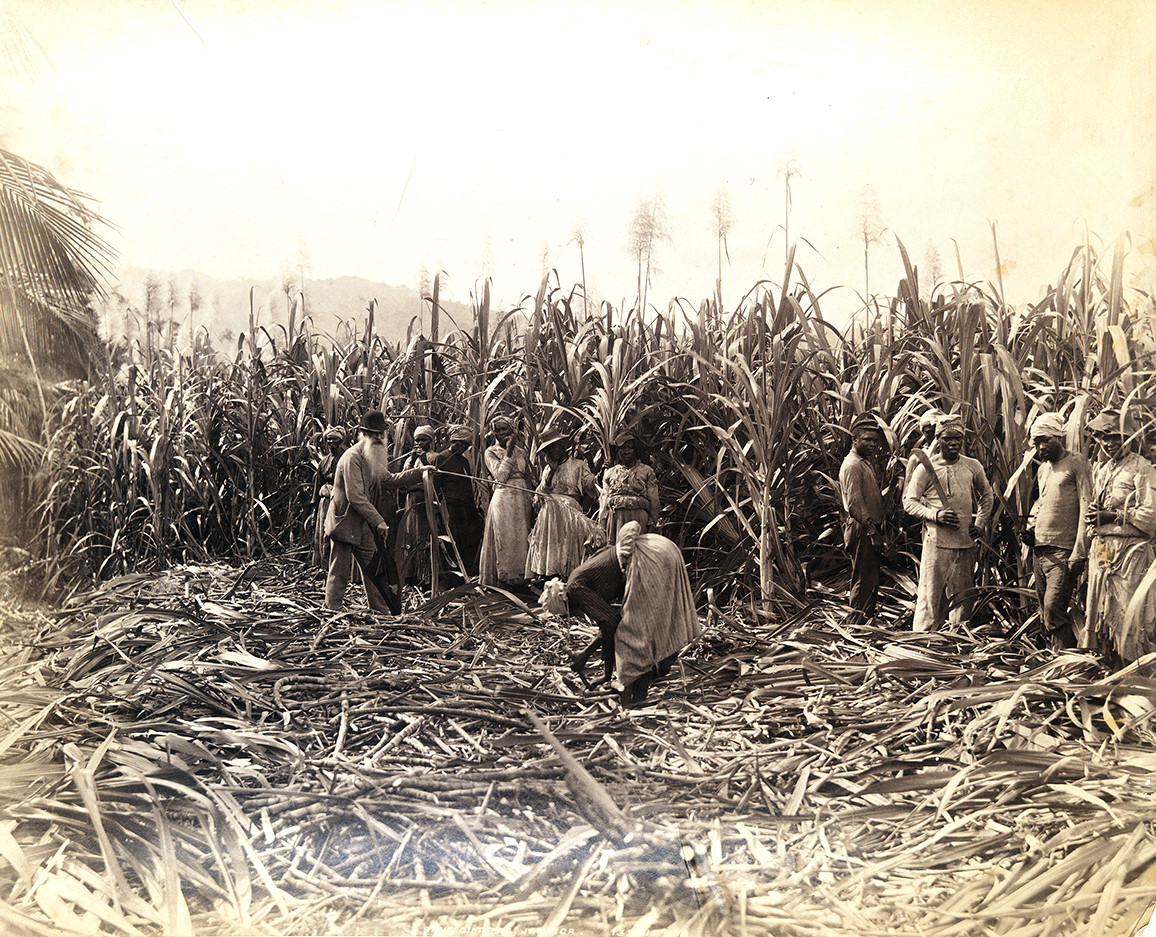 Title: Cane Cutters, Jamaica Creator: Unknown Date: ca. 1890-1896 Part of: Photographs of Jamaica, Trinidad, and Venezuela Place: Jamaica Physical Description: 1 photographic print: gelatin silver, part of 1 volume (48 prints); 23 x 26 cm on 25 x 30 cm mount File: ag1982_0037_33_opt.jpg Rights: Please cite DeGolyer Library, Southern Methodist University when using this file. A high-resolution version of this file may be obtained for a fee. For details see the web page. For other information, . For more information and to view the image in high resolution, View Latin America and the Caribbean: Photographs, Manuscripts, and Imprints